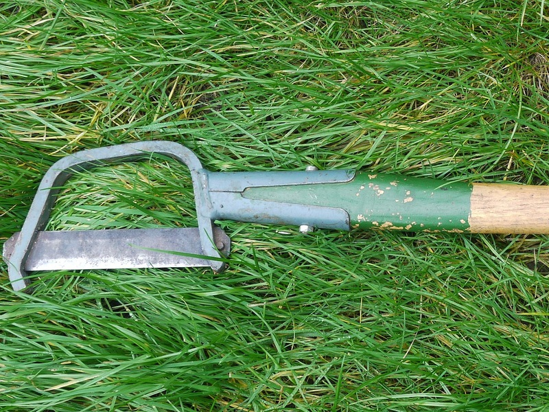 A clearing axe (rodax), a tool used to cut small twigs and young trees.